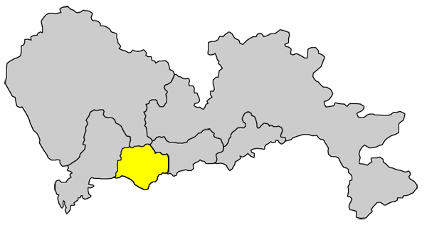 Location of Futian District, Shenzhen